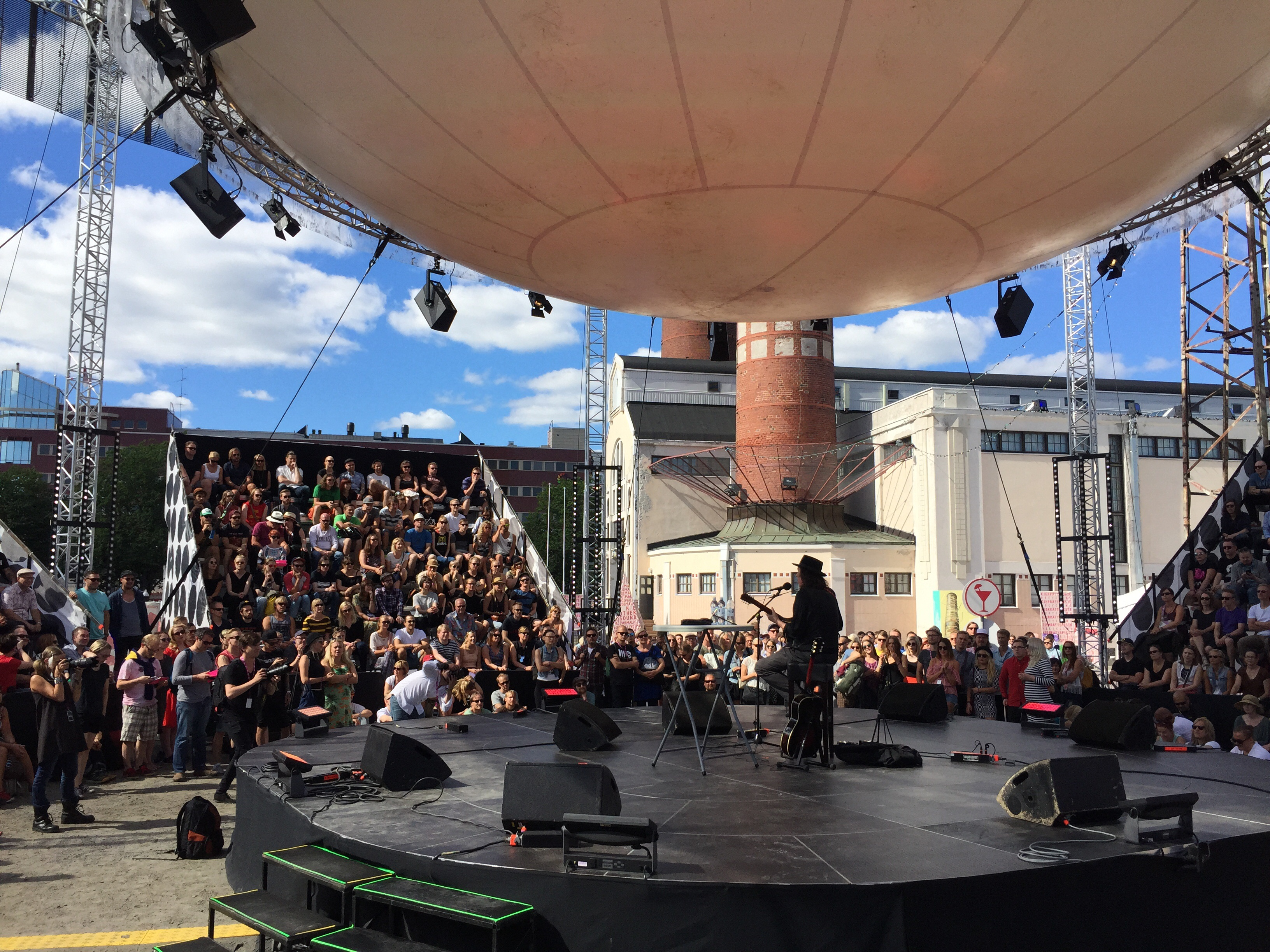 Davel Lindholm at Flow Festival 2015, Helsinki